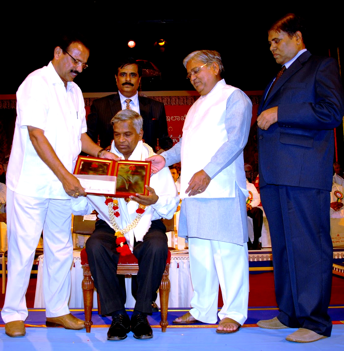 Purushothama Bilimale